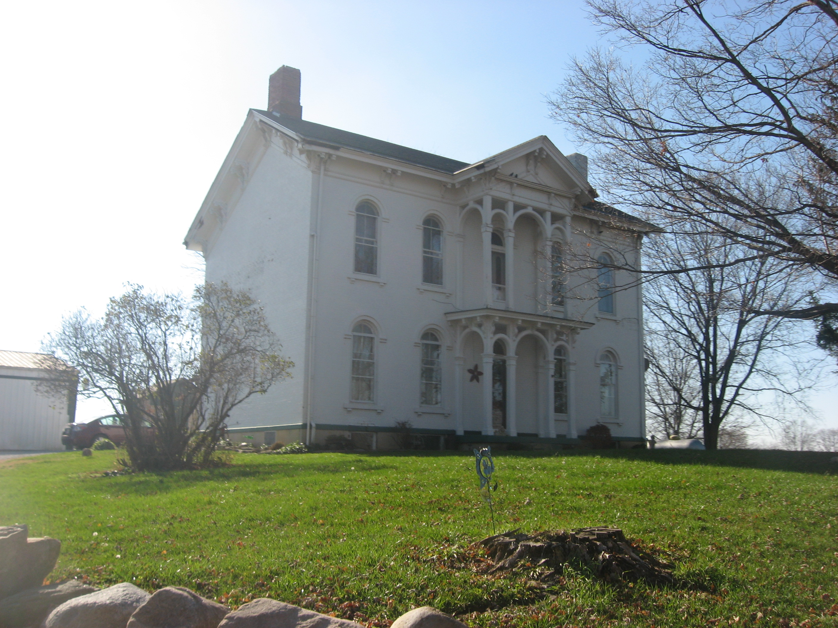 Front and eastern side of the Archibald M. Kennedy House, located at 2317 E200N northeast of Rushville in Rushville Township, Rush County, Indiana, United States. Built in 1864, it is listed on the National Register of Historic Places.